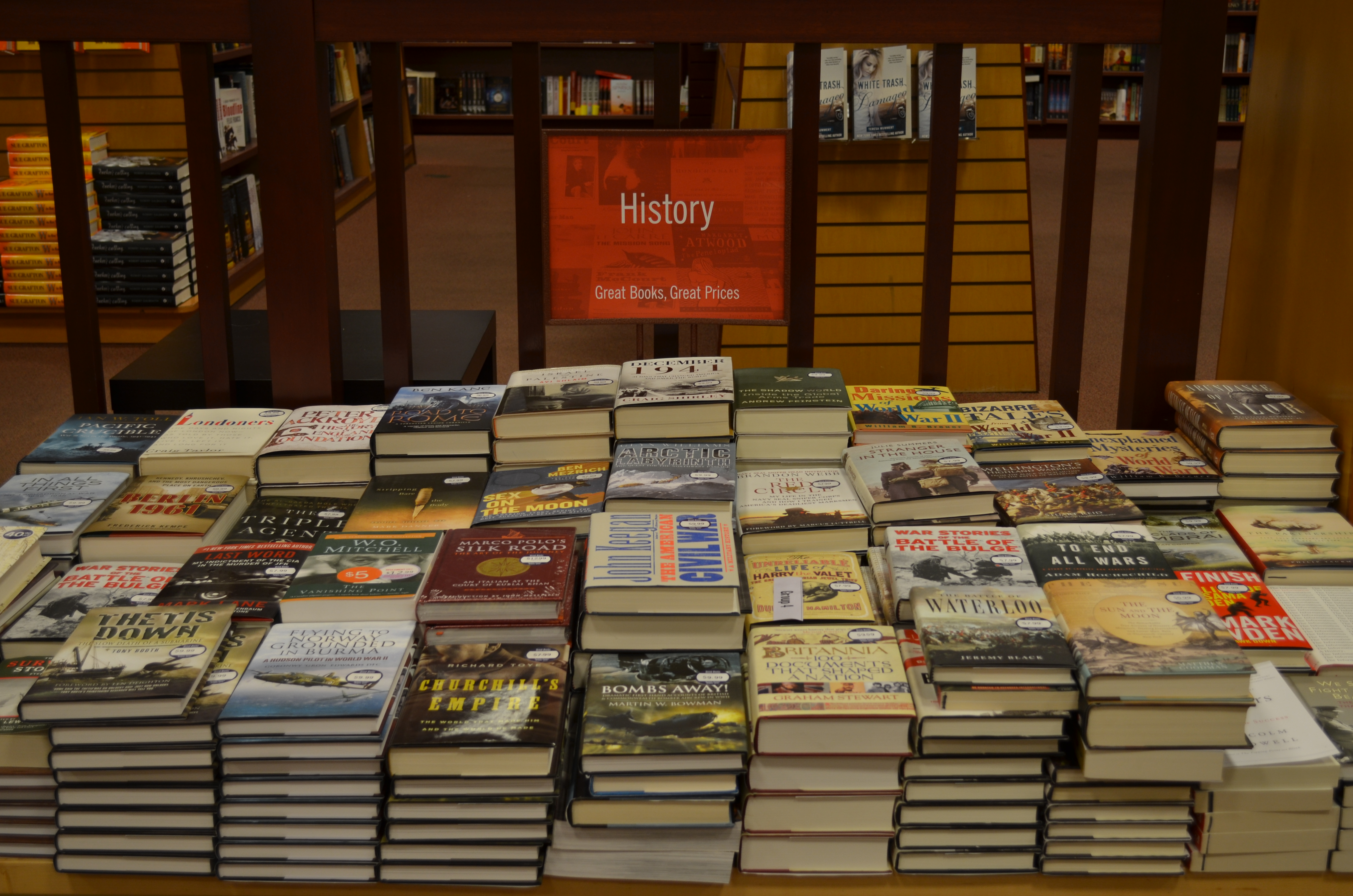 History books for sale.